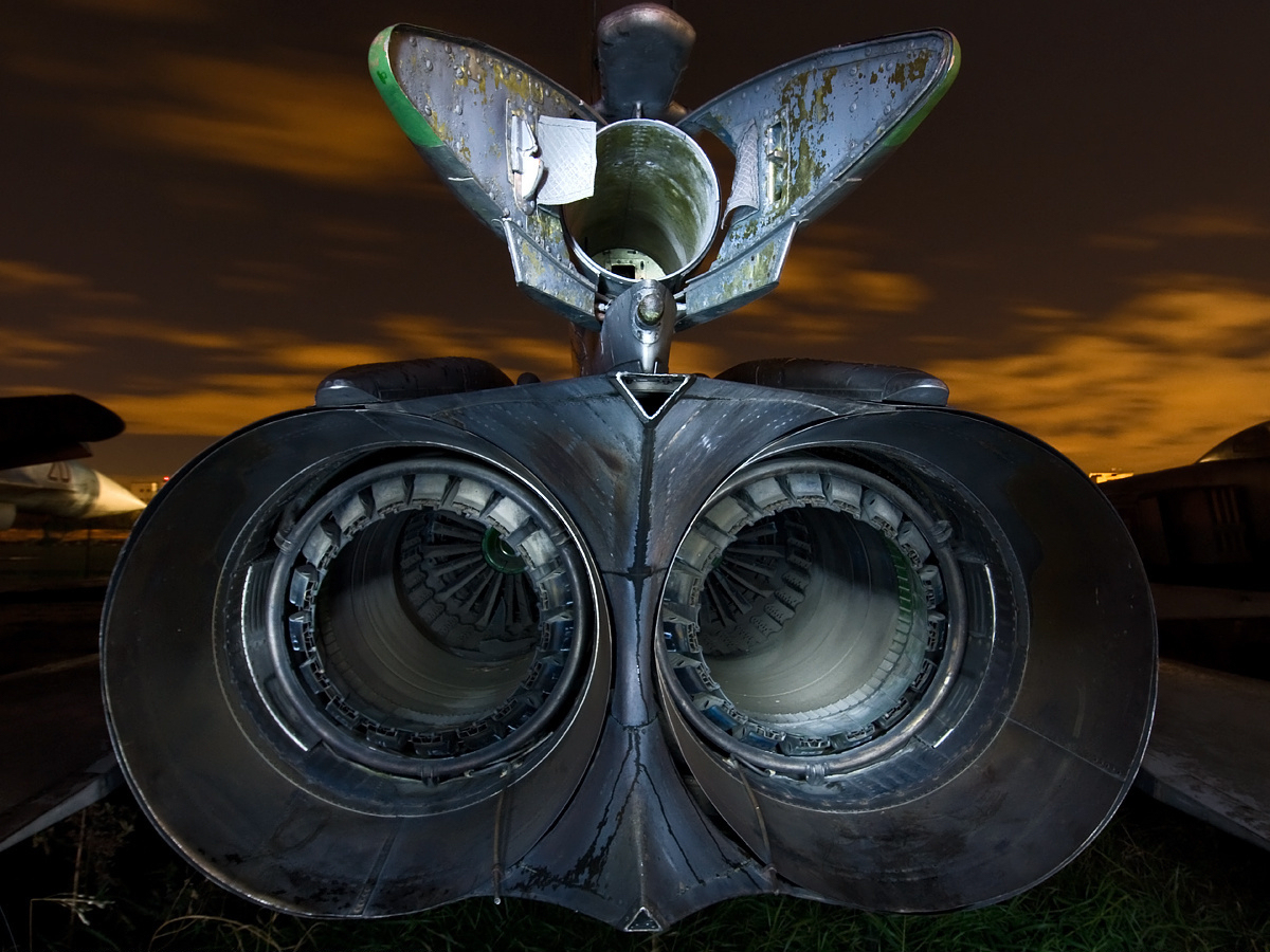 Sukhoi Su-15. Nozzles view.